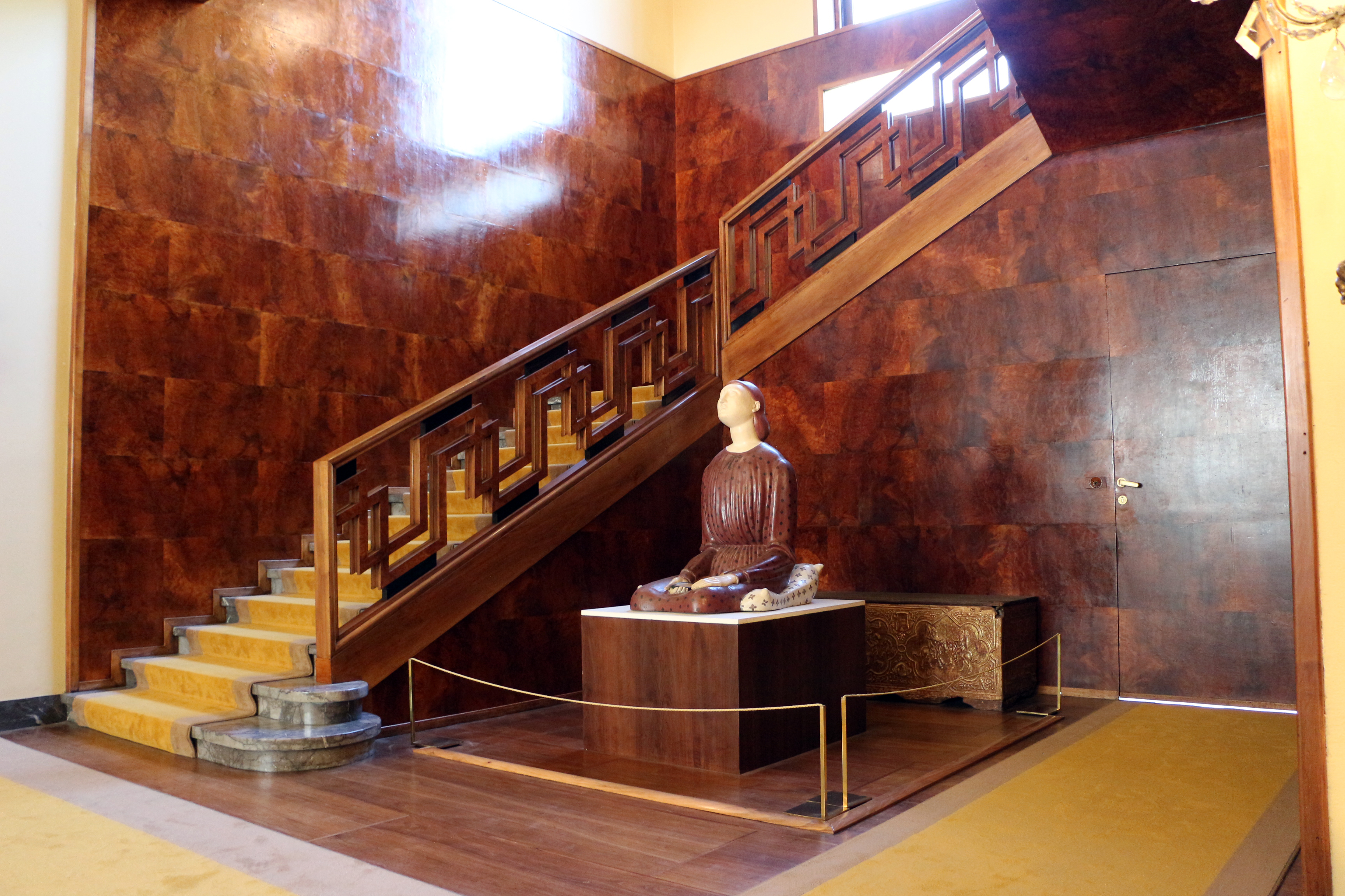 Villa Necchi Campiglio (Milan) - Interior